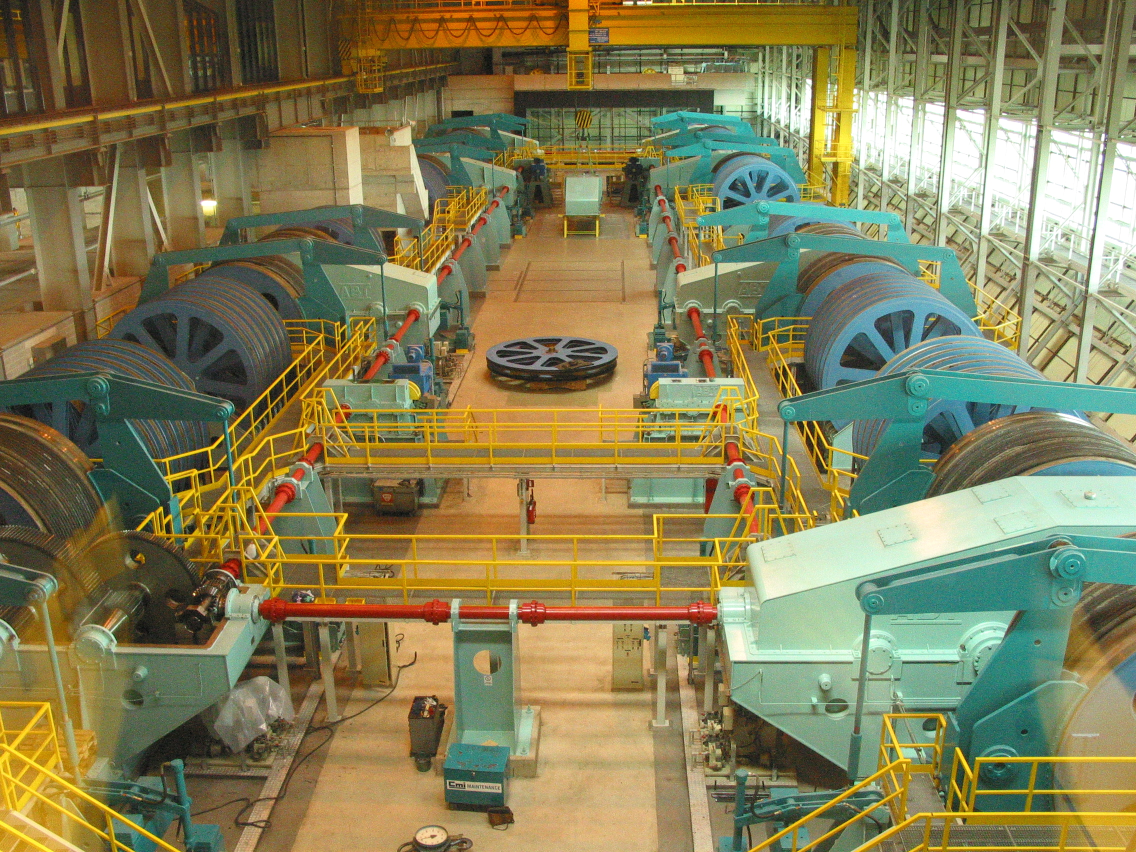 Strépy Bracquegnies (Belgium), the machine room of the ship elevator.